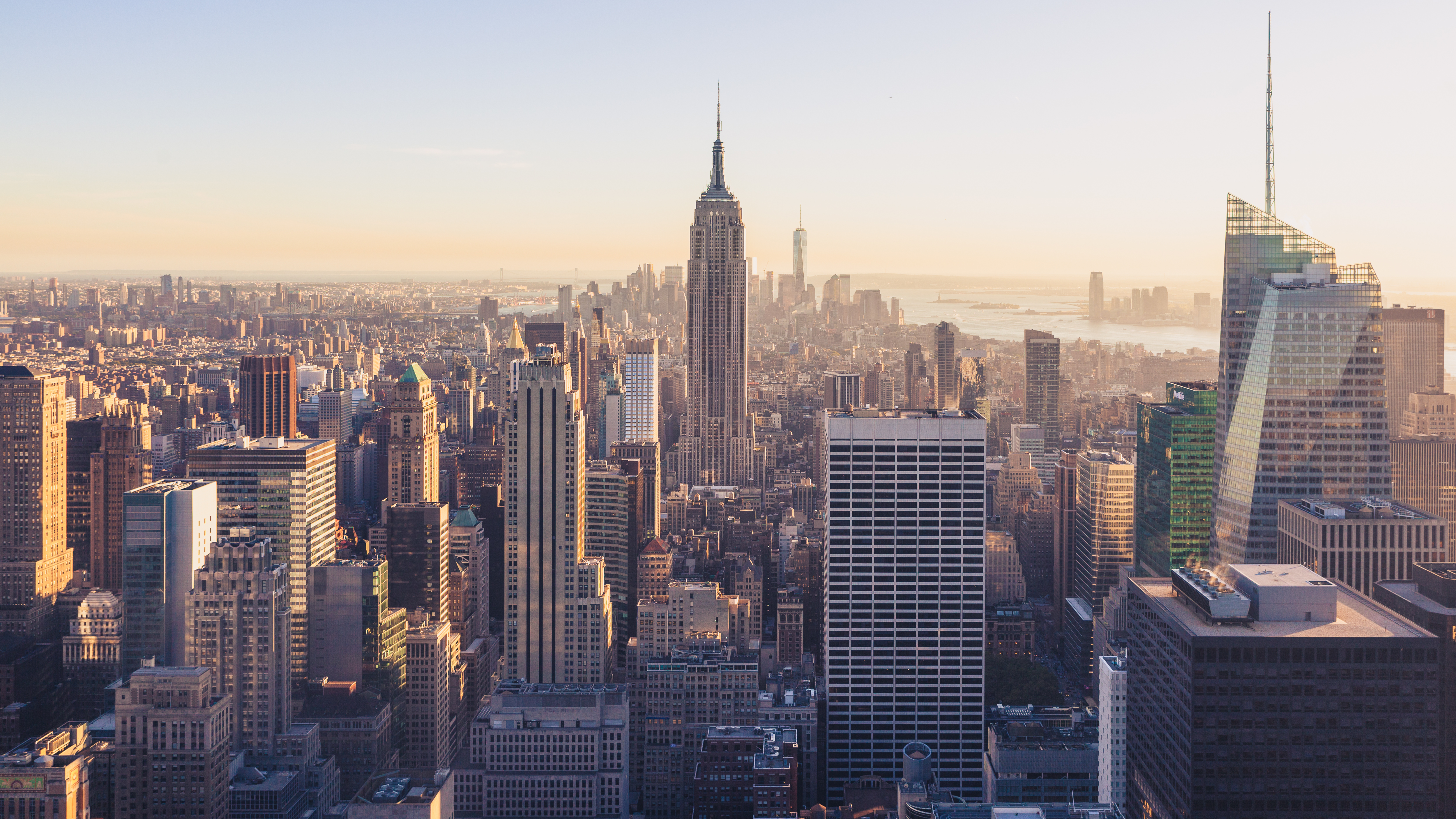 Rockefeller Plaza, New York, United States